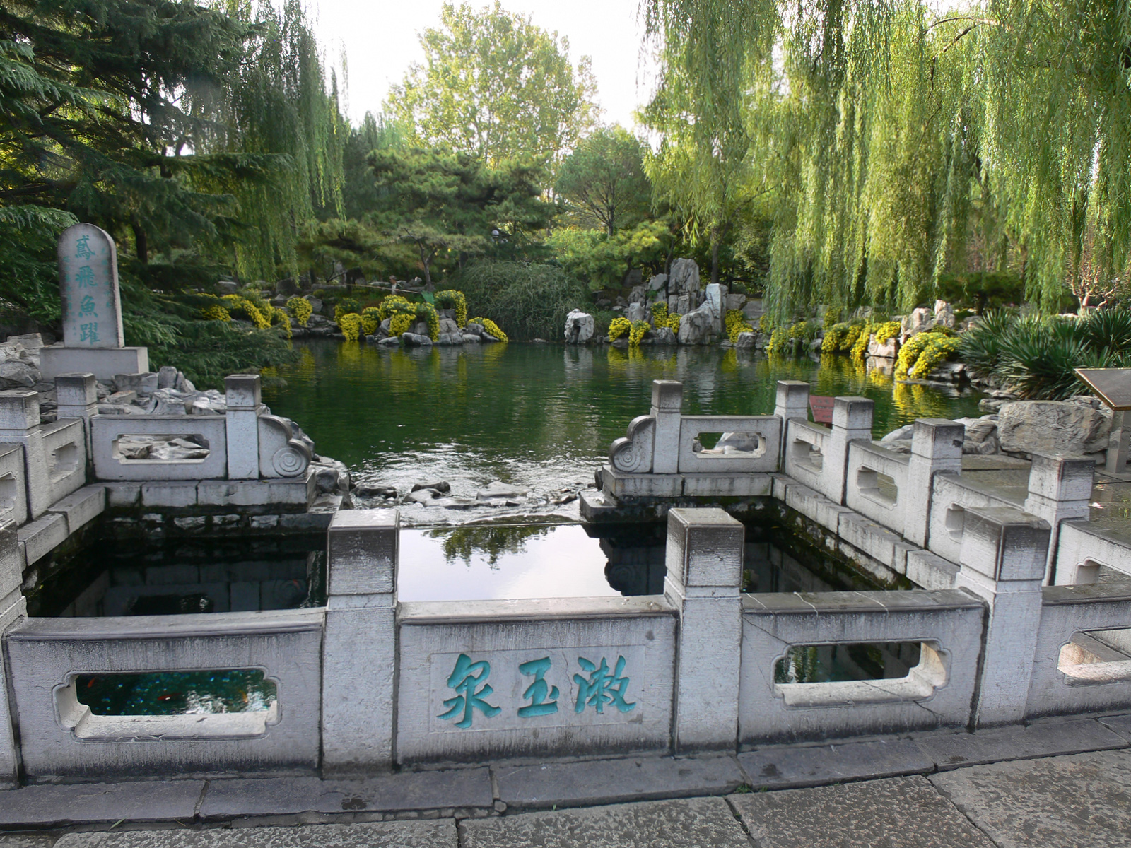 Rinse Jade Spring beside Li Qingzhao Memorial in Jinan